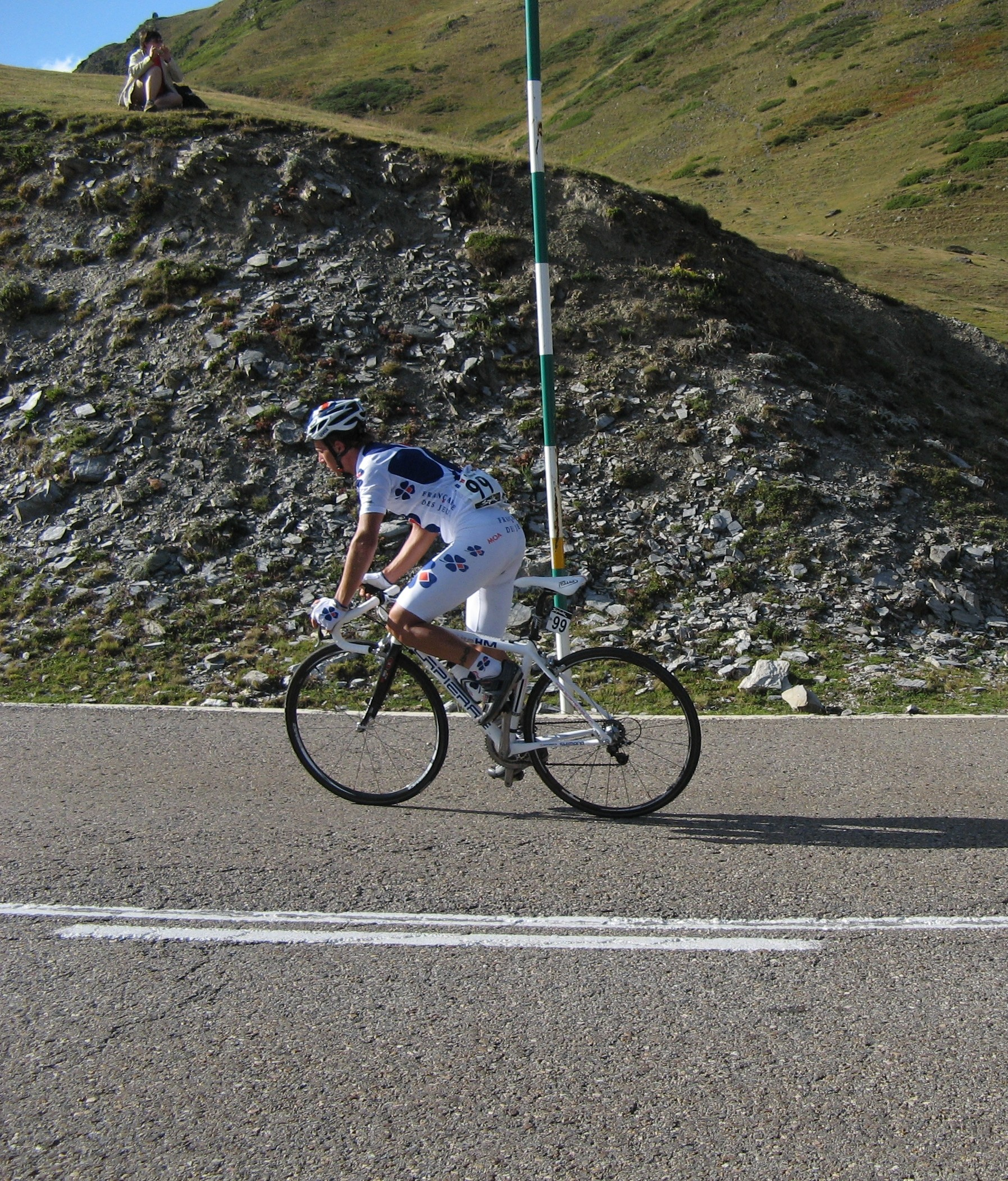 Francis Mourey, 2008 Vuelta a España, 8th stage, Port de la Bonaigua, Spain.